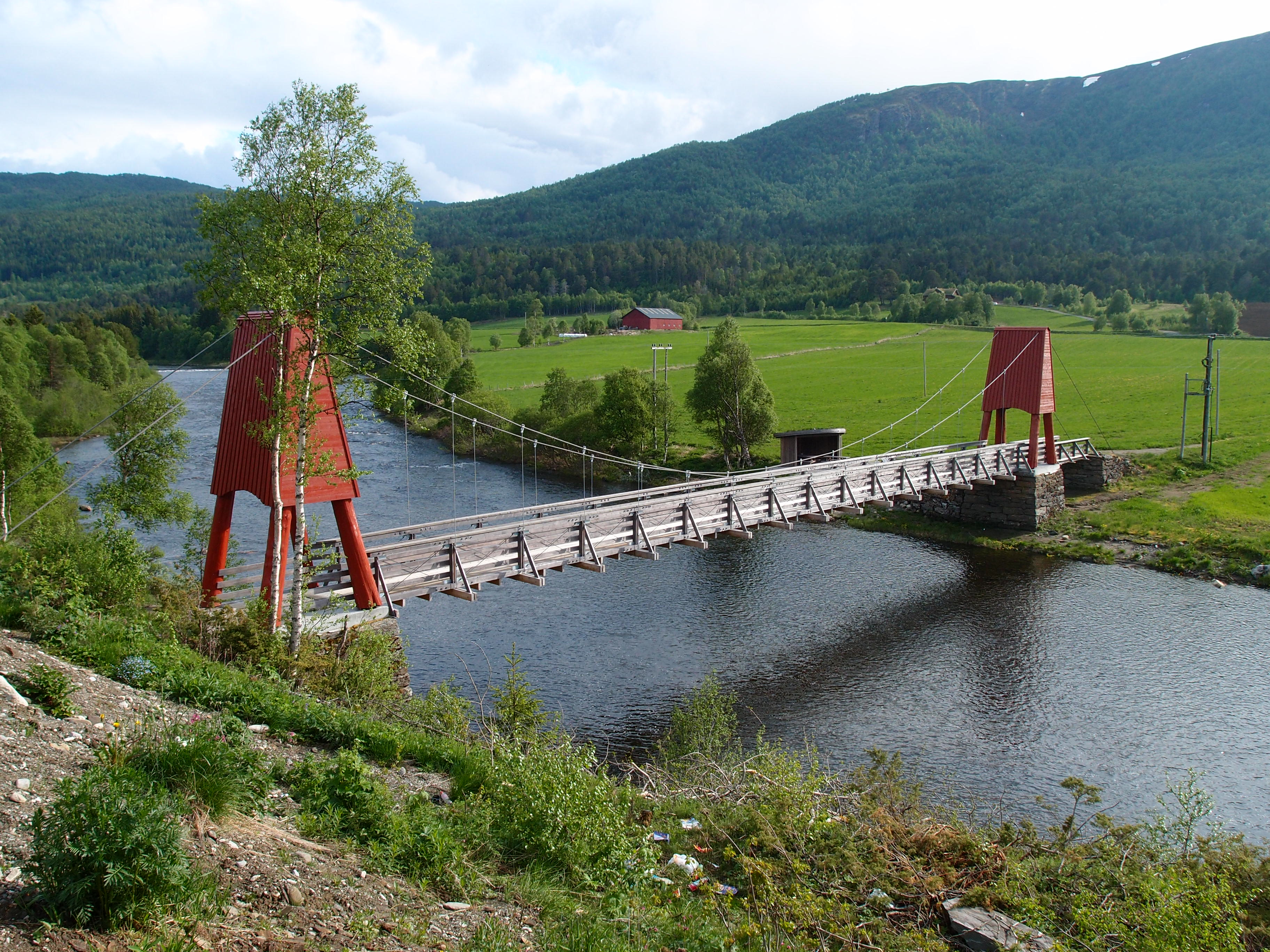 Vollan bridge, Kvikne, Tynset, Norway Norsk (bokmål): Vollan bru, Kvikne, Tynset, Norge